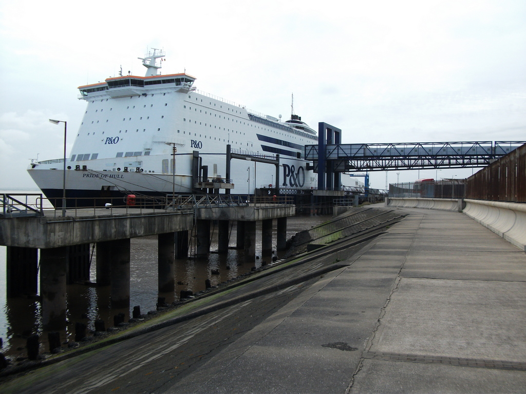 Note: geotagged images have been done manually, generally to ~5m or better accuracy, but human errors may occur. Location refers to camera location, no location of object photographed.